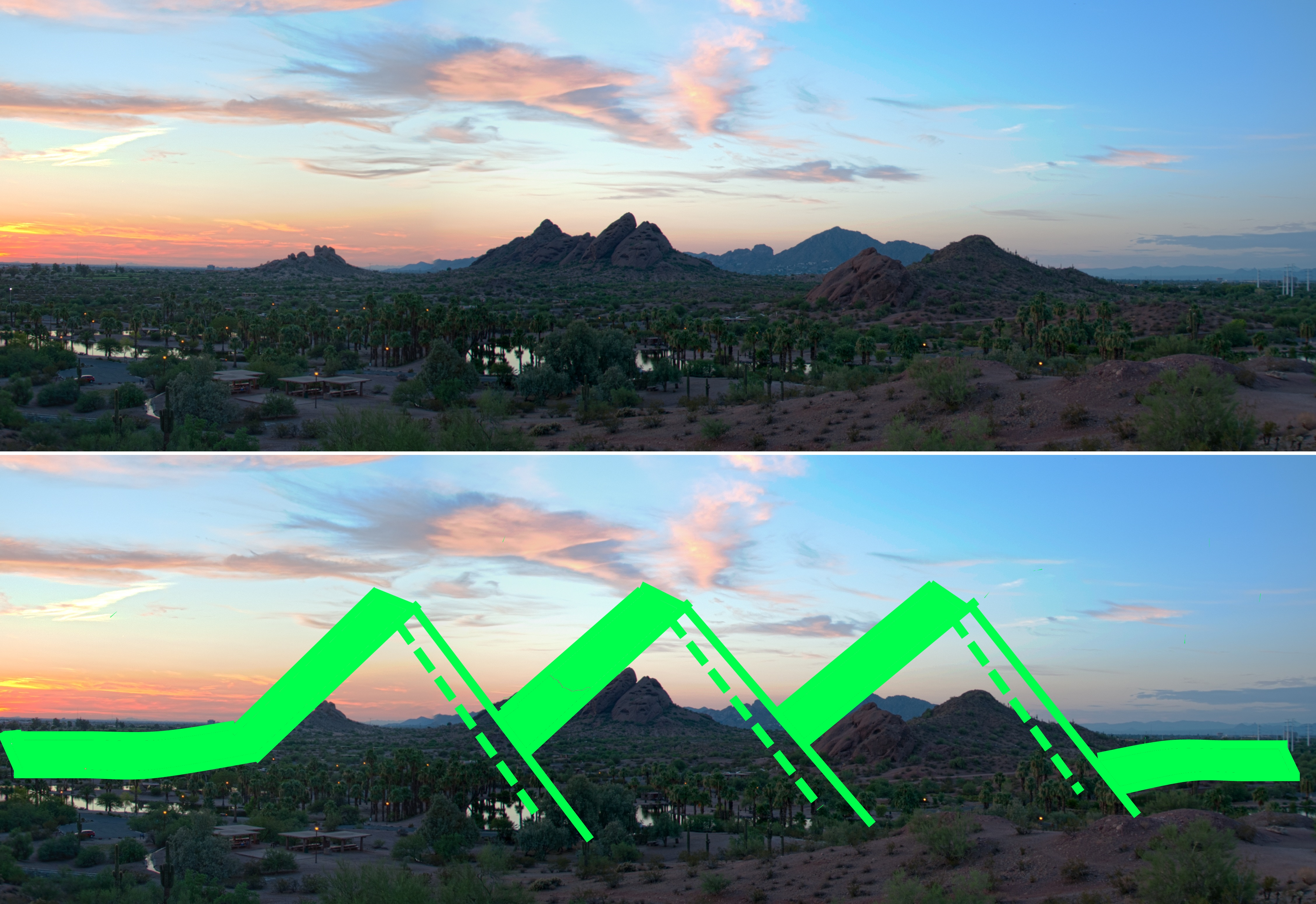 Tilted fault blocks illustrated with feature reconstruction